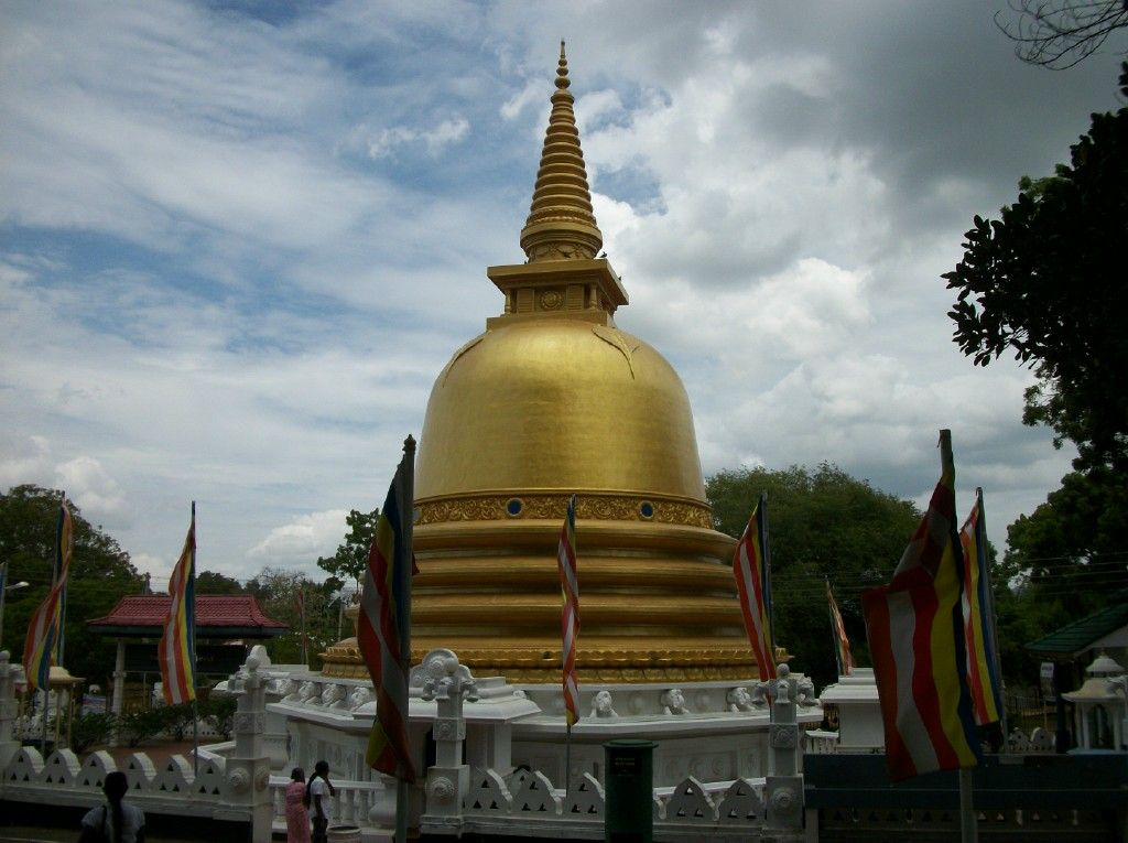 Golden temple dambulla සිංහල: රන් විහාරය, දඹුල්ල